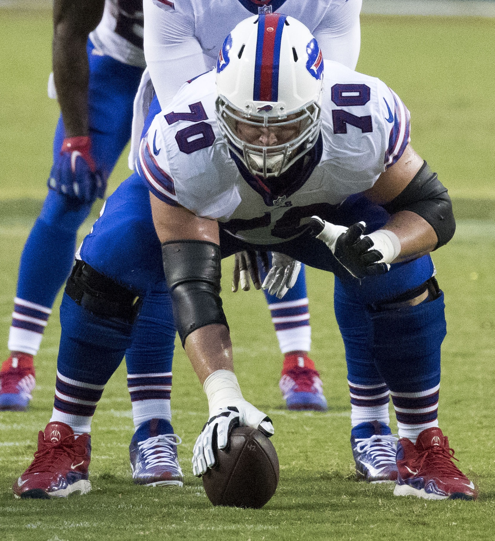 Bills at Redskins 8/26/16